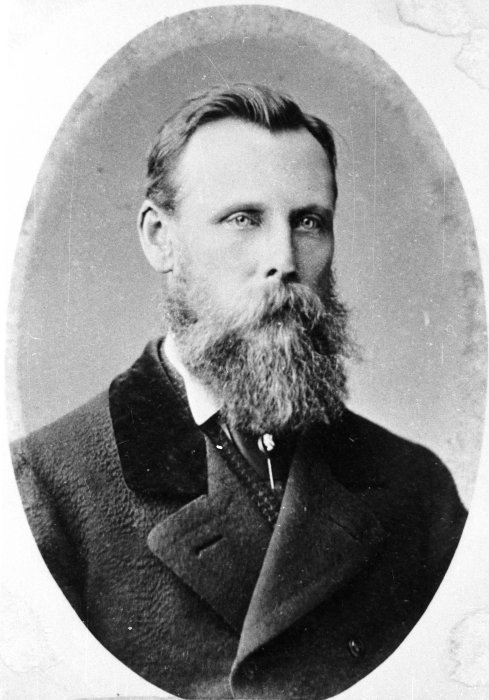 Photograph taken of William Lee Rees